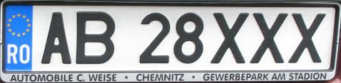 A new Romanian licwence plate from Alba.